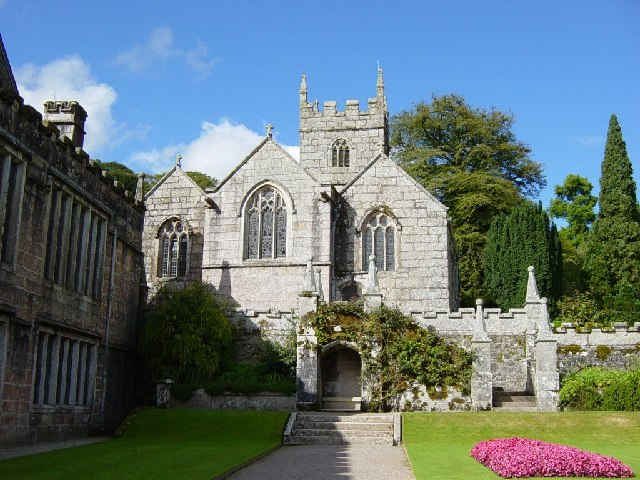 Lanhydrock Church. Situated within the estate of Lanhydrock House (now National Trust) this parish church still holds services.